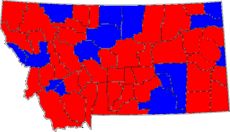 1988 Montana Senate election results by county.